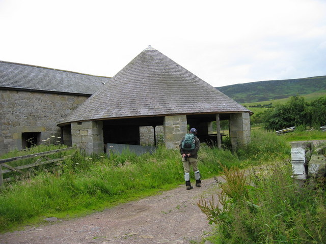 Gin Gang Bickerton. near to Hepple, Northumberland, Great Britain